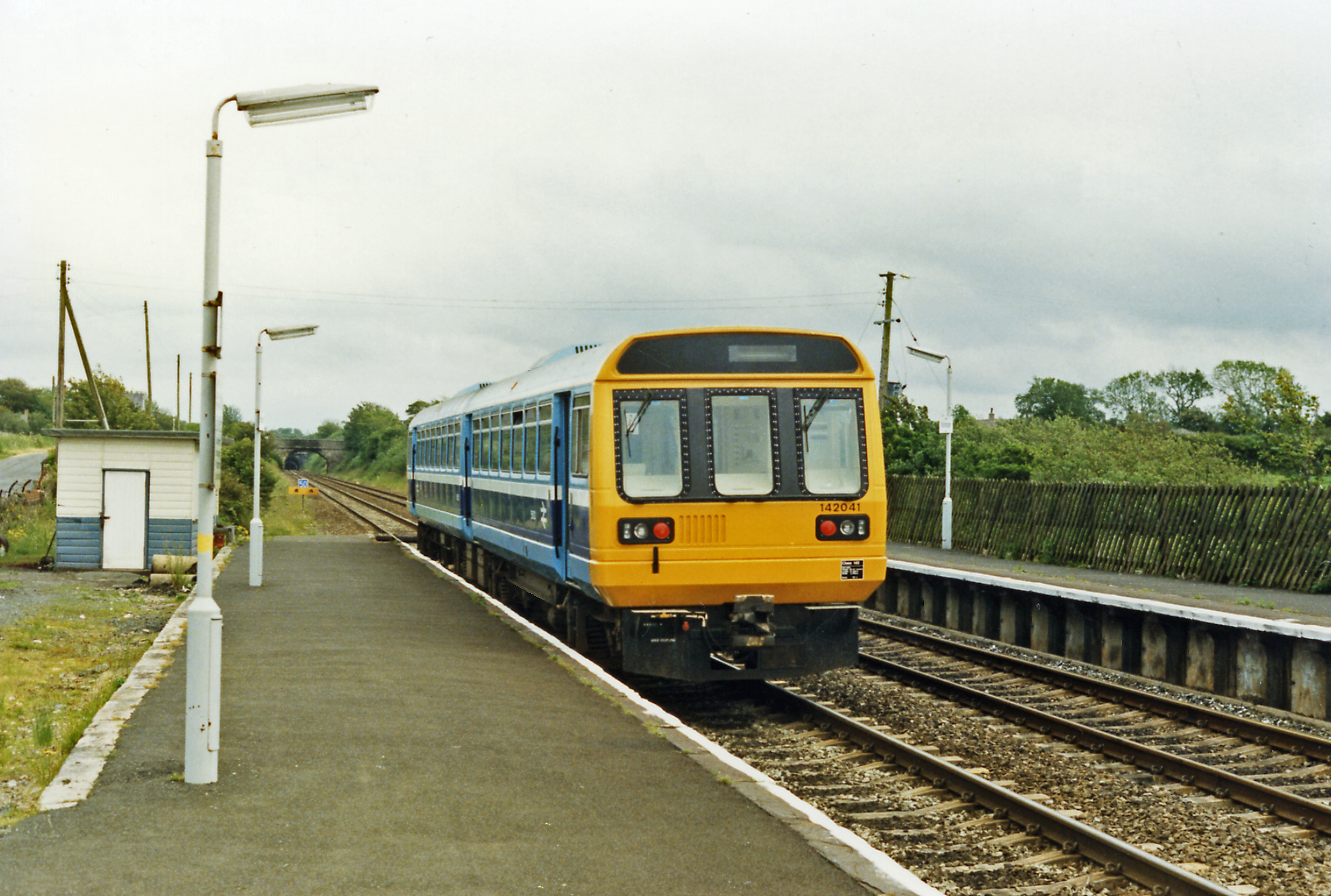 New Class 142 'Pacer' DMU leaving Bodorgan for Llandudno, 1986. View eastward, towards Menai Bridge, Bangor etc.: ex-LNWR Chester - Holyhead main line. This wayside station in Anglesea has remained open for some reason, but the 'train' is a demoted 15.05 stopping service from Holyhead.